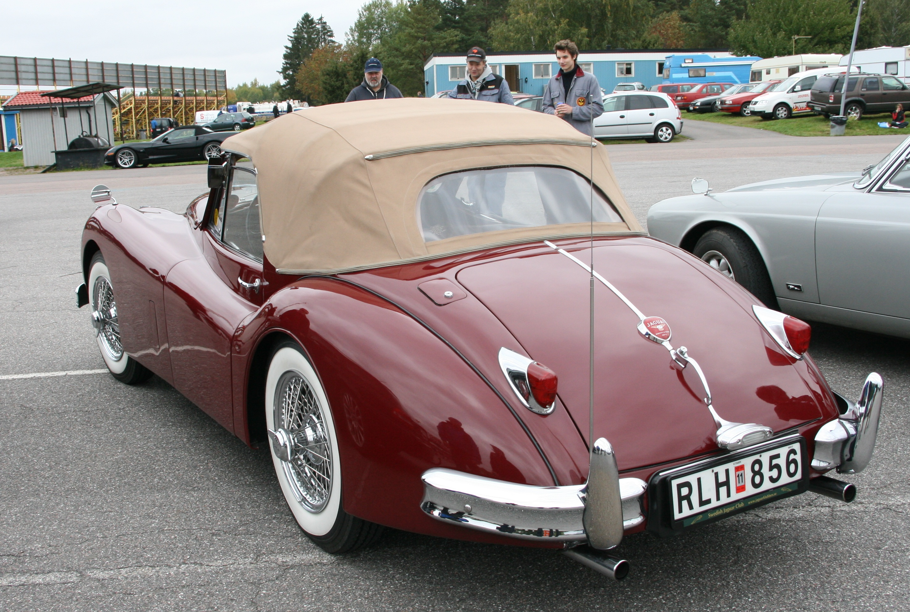 Rear view of a red Jaguar XK 140 DHC, year 1955. As seen at Mantorp Park, Sweden.